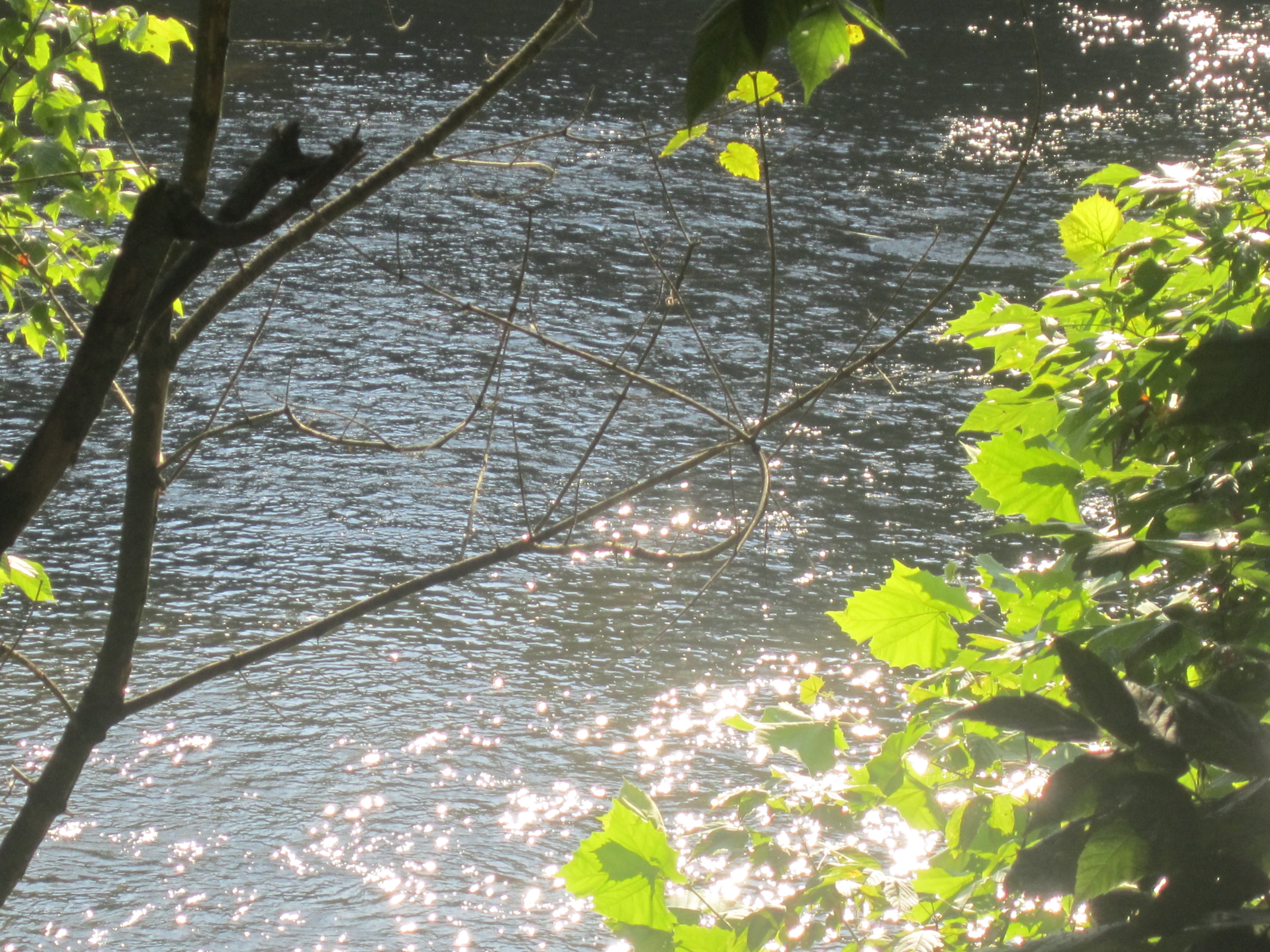 I took photo with Canon camera of James River in Lynchburg, VA.